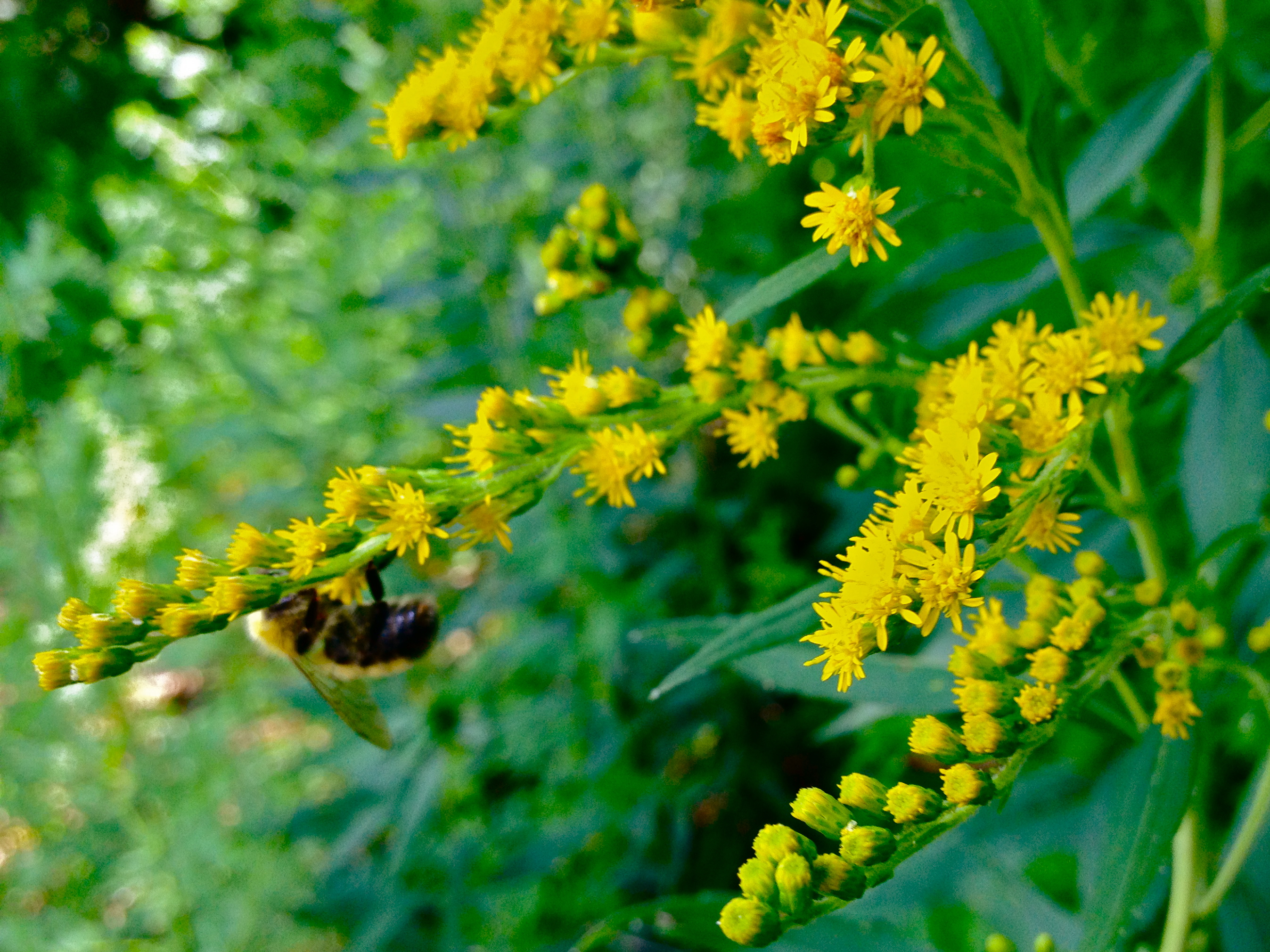 Photo of Solidago juncea in flower. This is a native plant growing wild in the C & O Canal National Historical Park, Montgomery county Maryland, USA. This species is a member of the Asteraceae family.